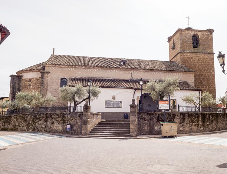 Iglesia parroquial de Nuestra Señora del Monte